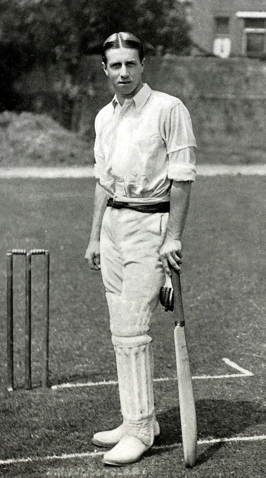 circa 1906, John William Henry Tyler Douglas, (1882-1930) who played for Essex 1901-1928 and for England 1911-1925 in 23 matches